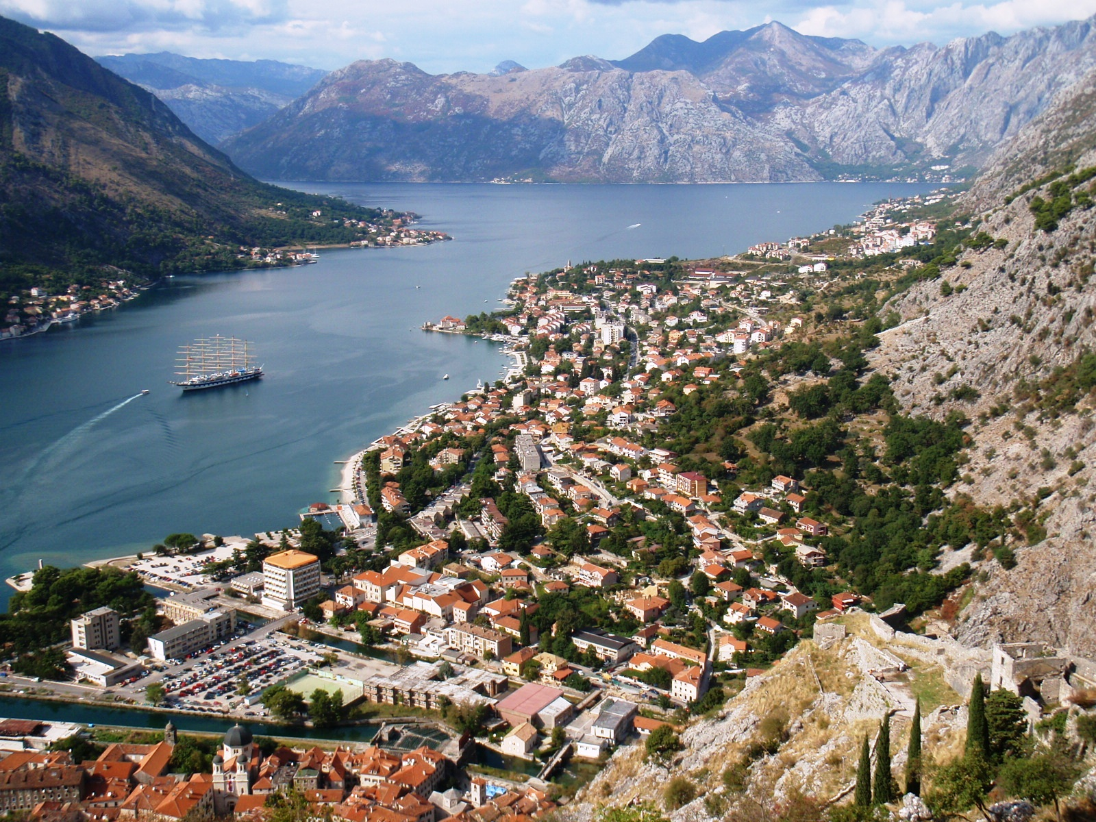 Kotor from the Kale